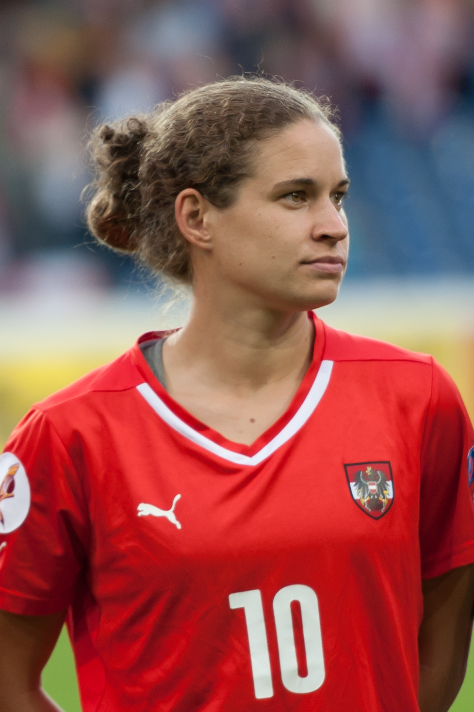 Women's Euro Qualification Austria vs. Wales, 2015-09-22, St. Pölten, Lower Austria